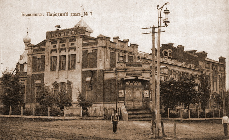 Postcard. Balashov. The People's house